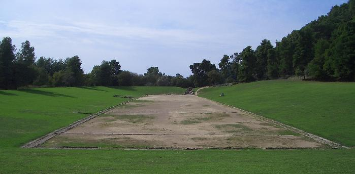 Olympia Stadion 2004